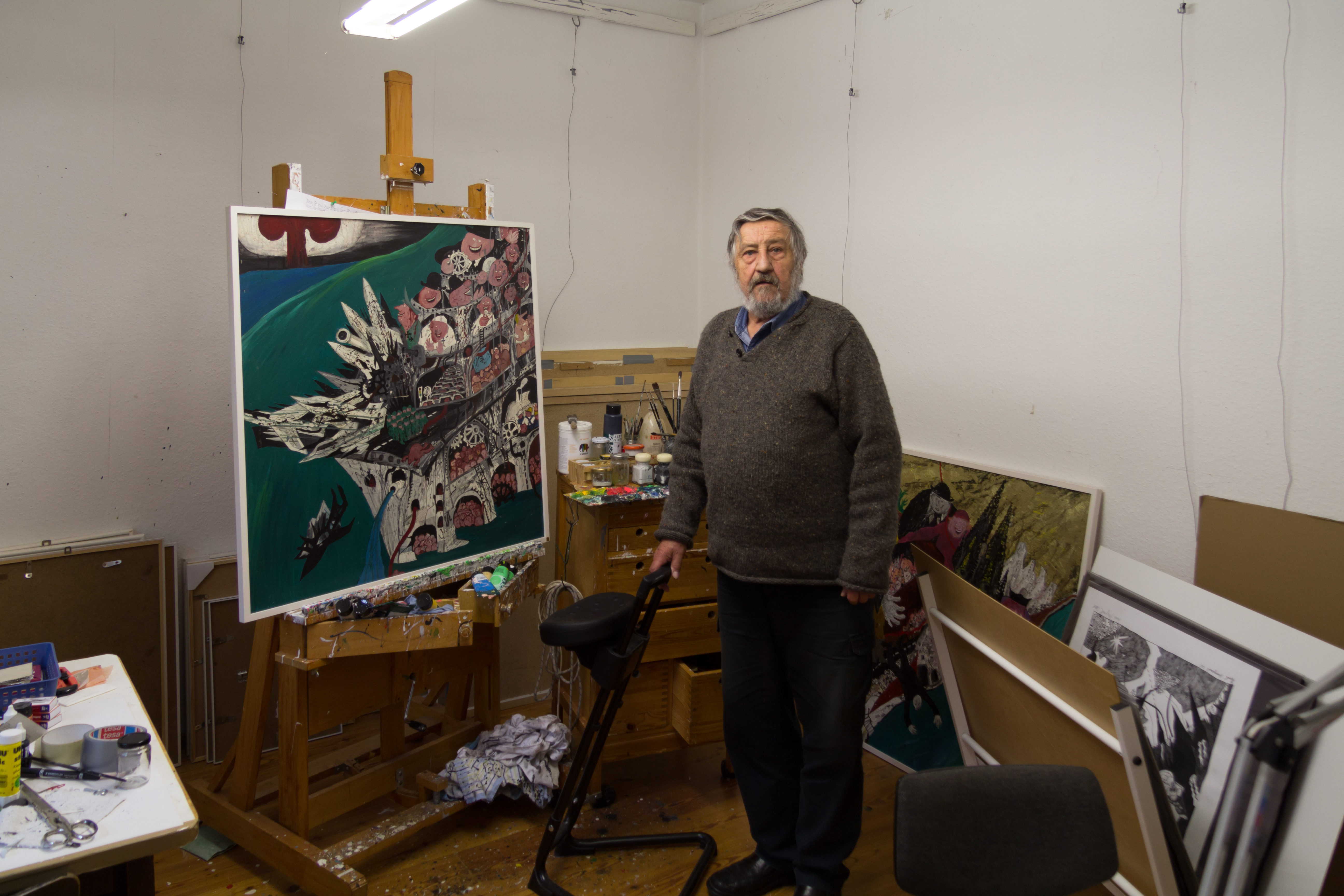 The painter Guido Zingerl in his studio. Links das Bild "Alles im Griff, auf dem sinkenden Schiff".